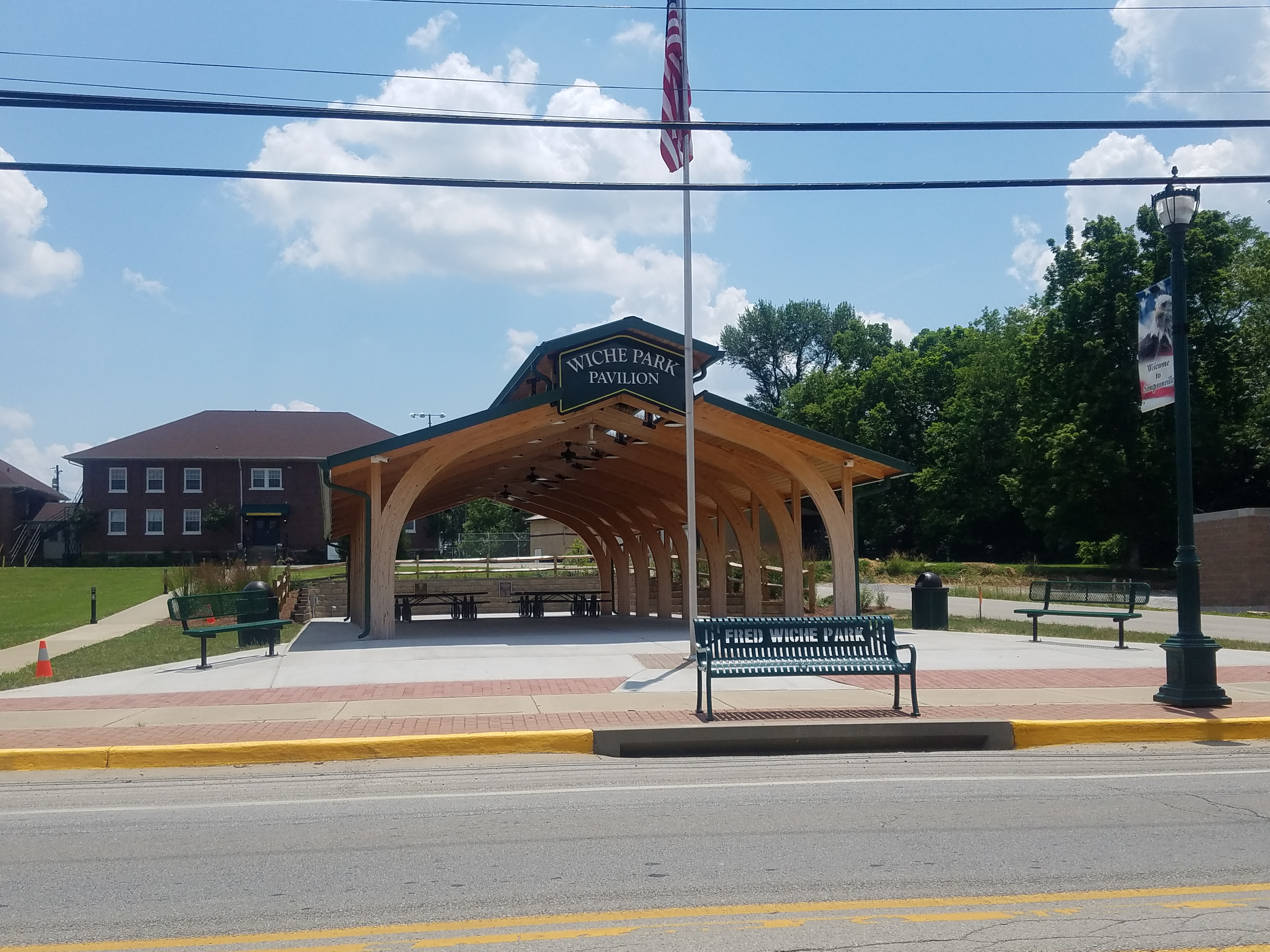 Pavilion at Fred Wiche Park In Simpsonville, Kentucky, USA on June 6, 2018